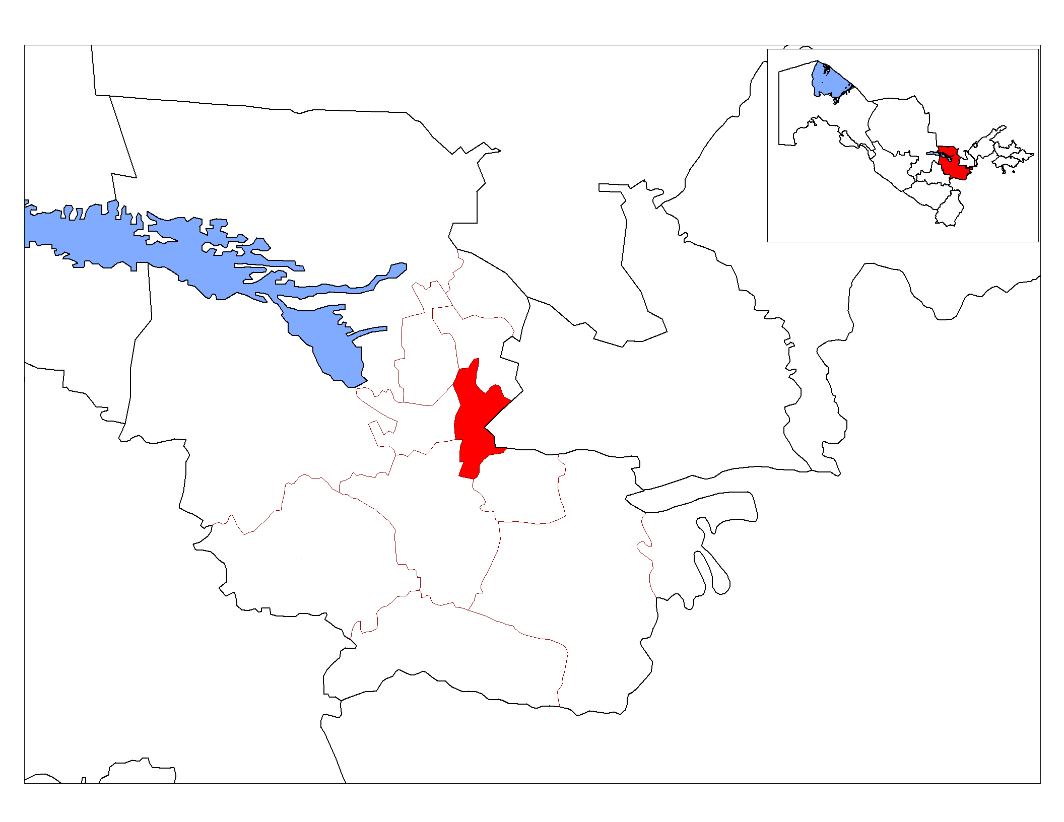 Location map of Paxtakor District in Jizzax Province, Uzbekistan